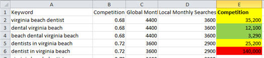 Effective keyword competitive analysis